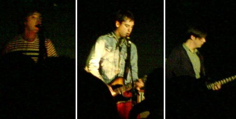 A photo of Switches cropped to fit better into the band's infobox.